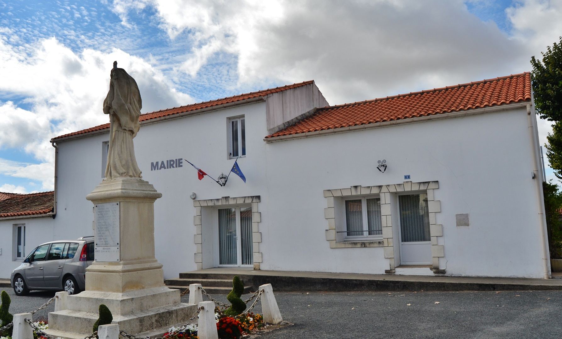 La Mairie